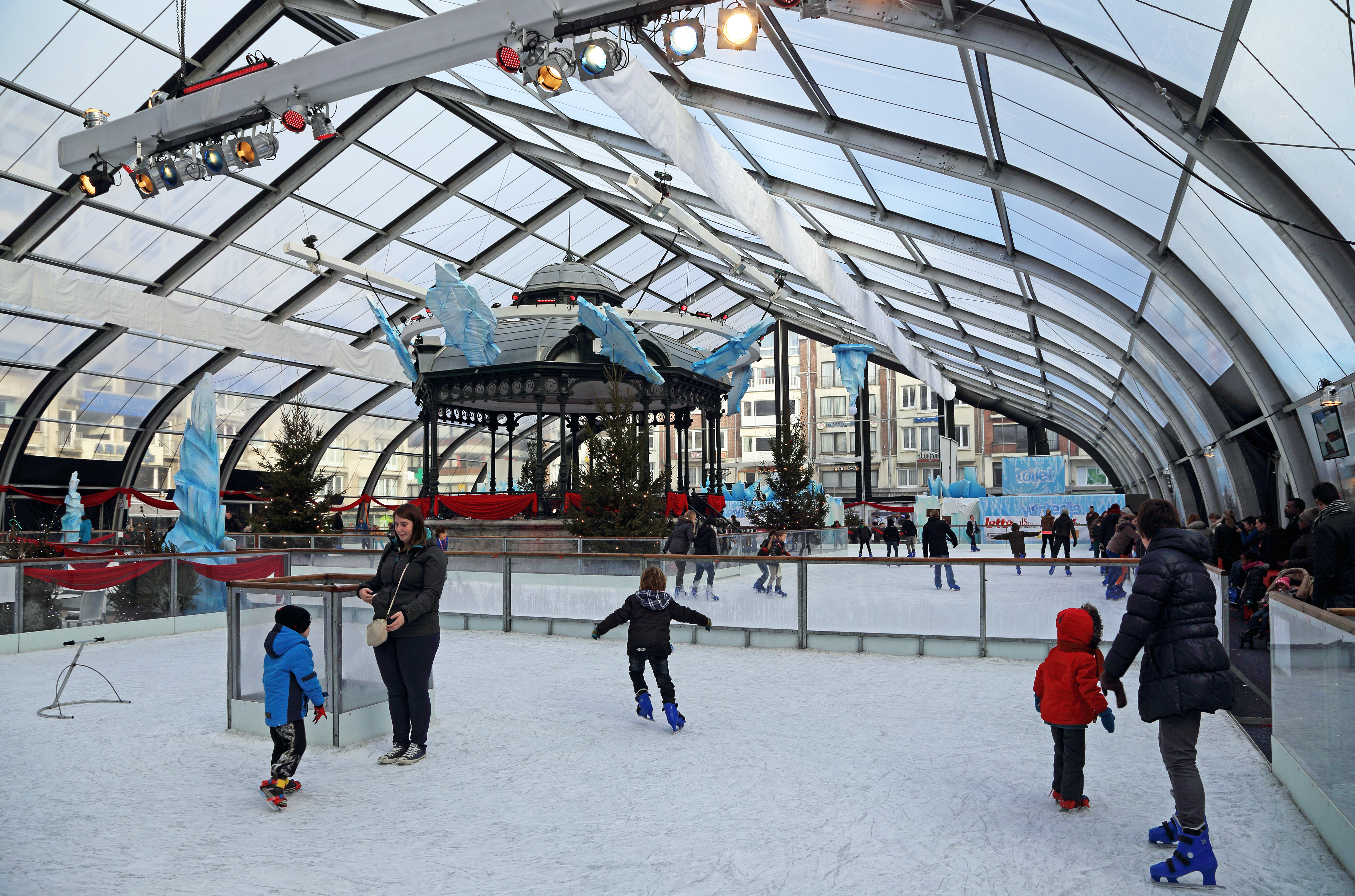 Temporary indoor ice rink on the Wapenplein square in Ostend (Belgium)